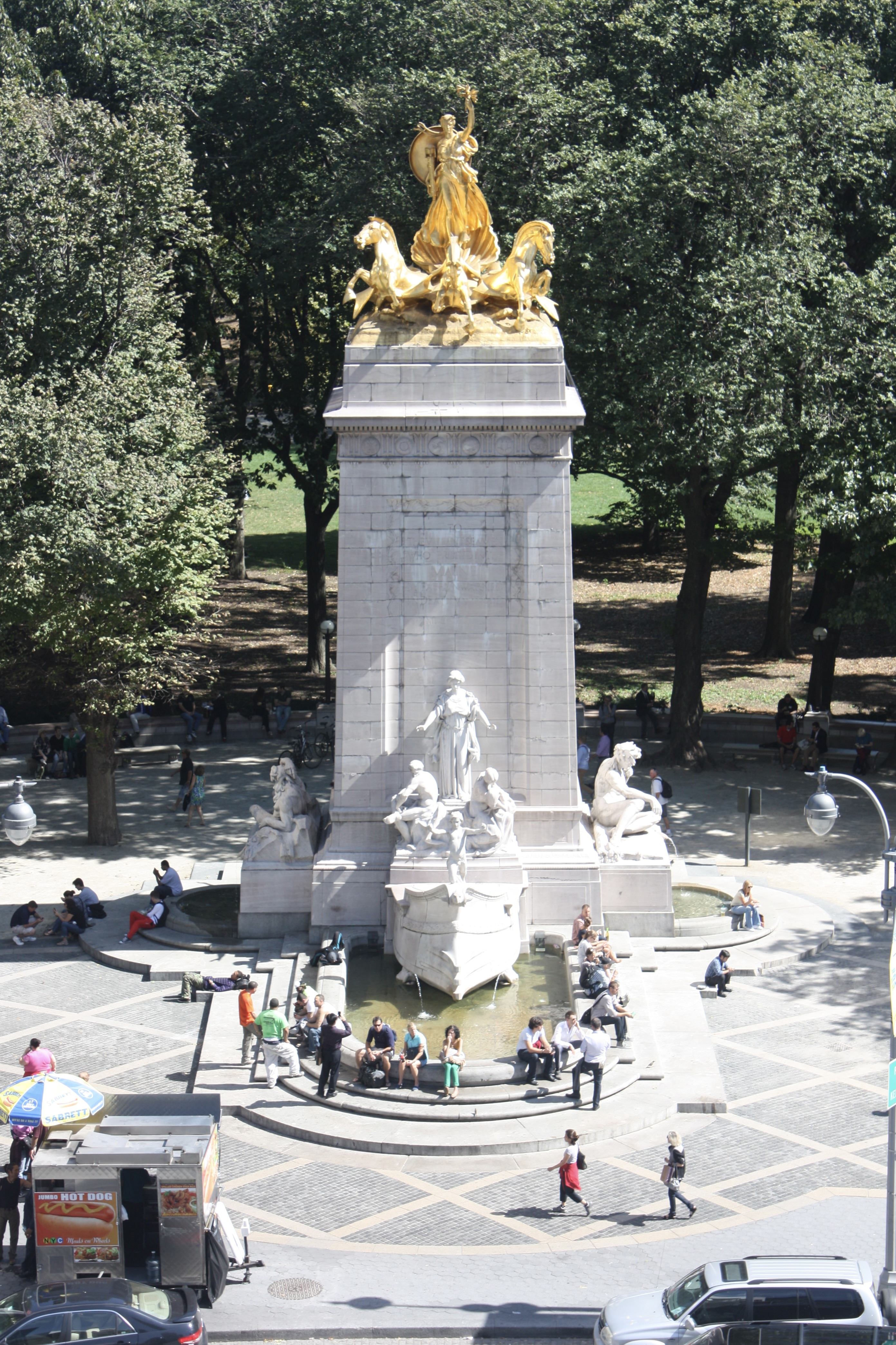 The Maine Monument stands at Merchant's Gate of Central ParkNew York City. The monument honors the 258 American sailors who perished when the battleship Maine exploded in the harbor of Havana, Cuba, then under Spanish rule. The causes of the February 15, 1898 explosion remain unclear, but by April of that year, Spain had declared war on the United States. Designer: H. Van Buren Magonigle Sculptor: Attilio Piccirilli